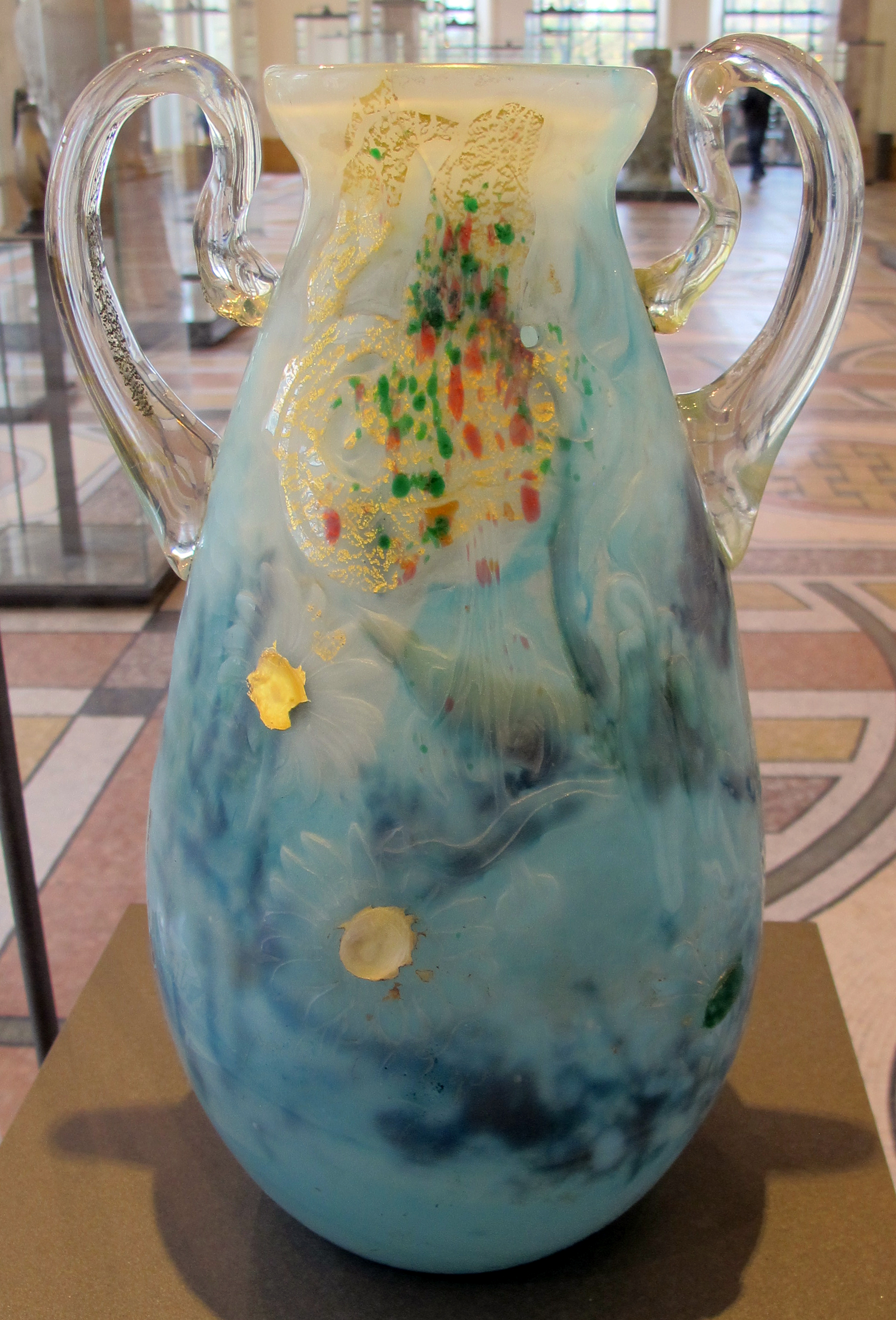 Vase with lilies and daises, face A. Study #4 for a vase commissioned by Countess Henri Greffulhe as a wedding gift for Princess Marguerite de Chartres, hence the decoration of daisies ("marguerites" in French). The vase is inscripted with a quatrain by French poet Robert de Montesquiou, cousin to the countess. Multi-layered blown crystal with inclusions of glass and gold dust, cabochons and handles added on and fused, 1896. Petit Palais, Paris